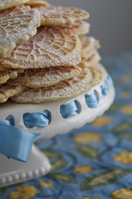 Pizzelle cookies on a display dish.